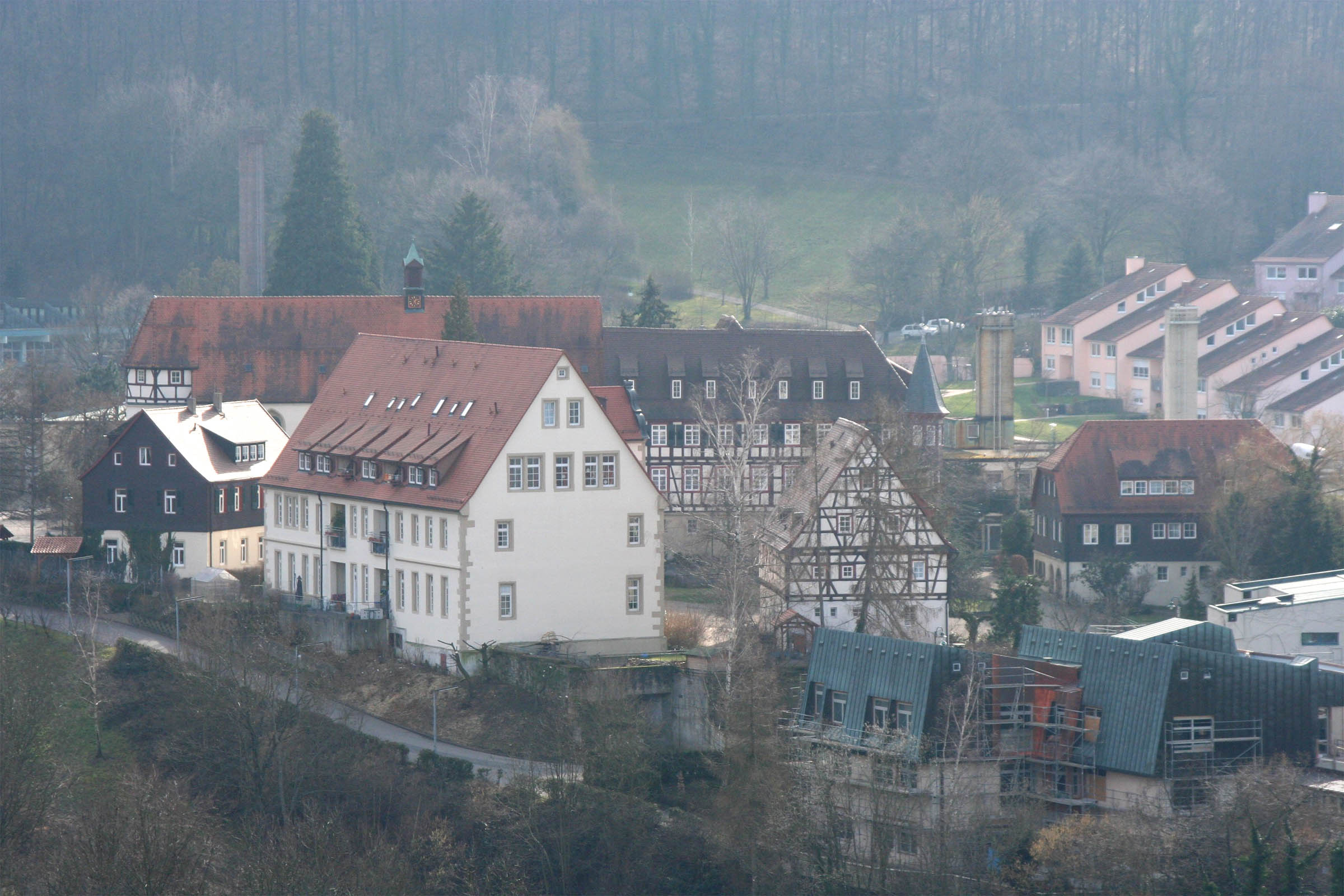 The former Cistercian nunnery in Löwenstein-Lichtenstern